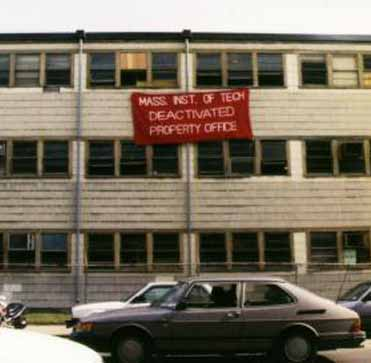 In a student hack, a giant "Deactivated" sticker was put on Building 20 in March 1998 to acknowledge the impending demolition of the building, to be replaced by the Stata Center. The sticker is an oversized replica of those put on any deactivated MIT equipment.